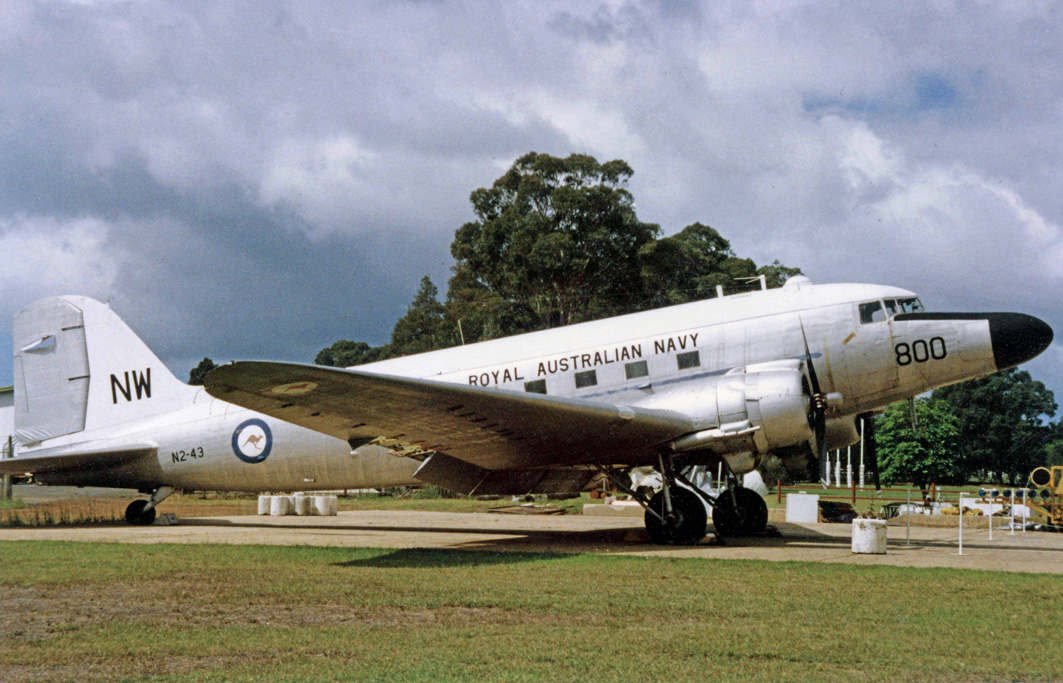 Douglas C-47A N2-43 of 851 Squadron, Royal Australian Navy at Nowra, NSW, in 1988